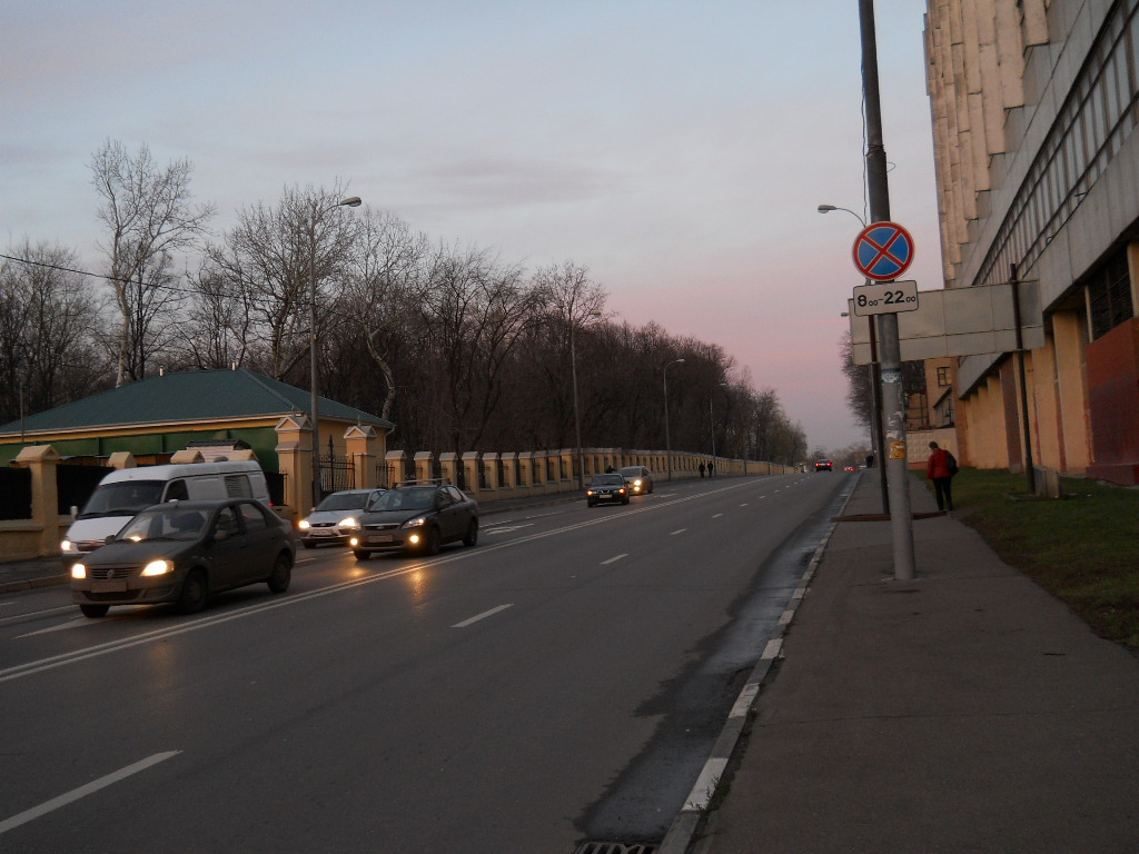 Sergeya Makeyeva Street (Moscow, Russia)